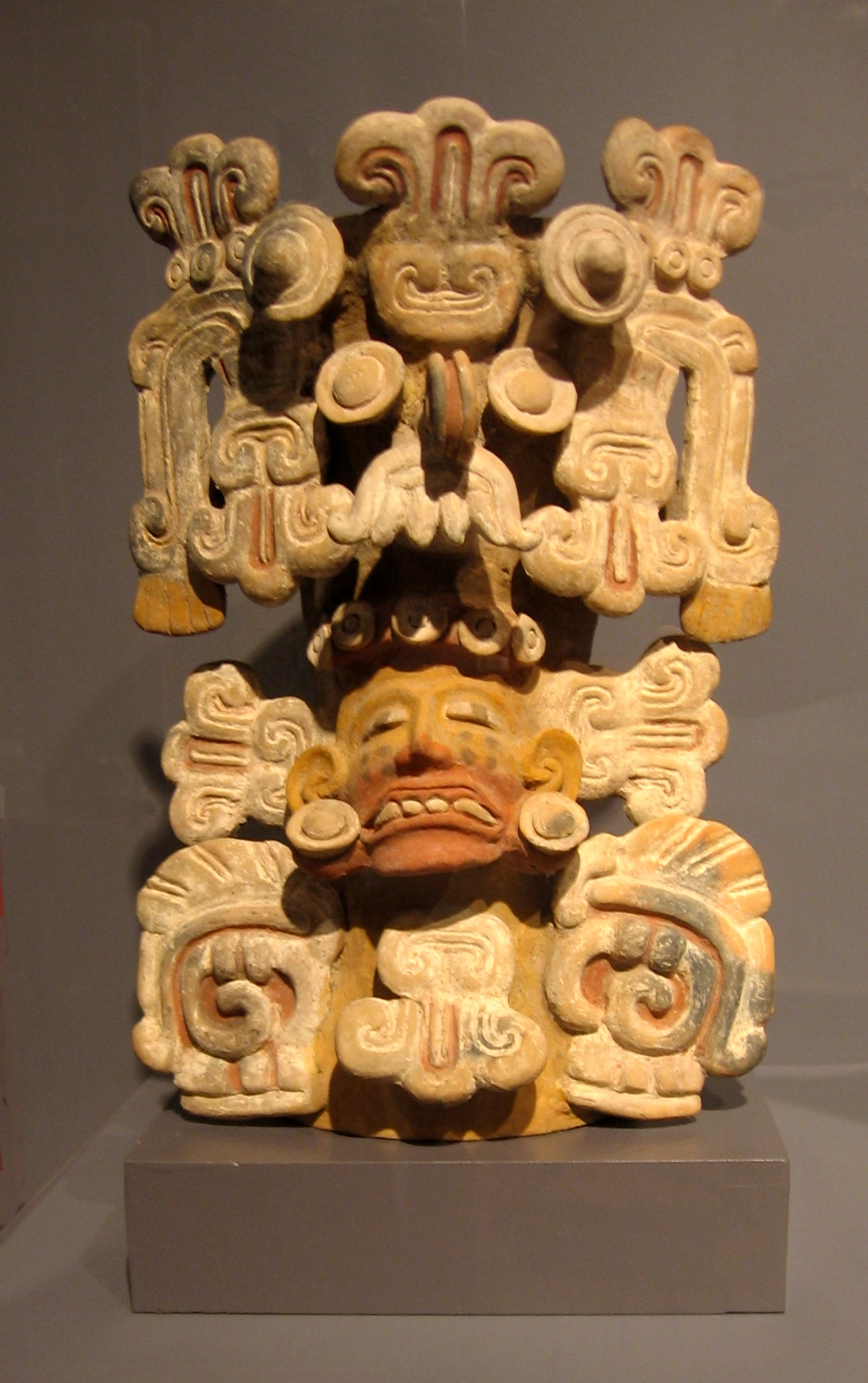 An incense burner from the Tarascan culture, showing a deity with a "Tlaloc headdress", 1350 - 1521 AD, from the Snite Museum of Art.